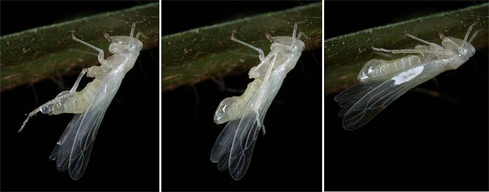 Anointing behavior of a freshly molted adult leafhopper Igutettix oculatus (Lindb.). Three parts (left to right) represent successive time points.